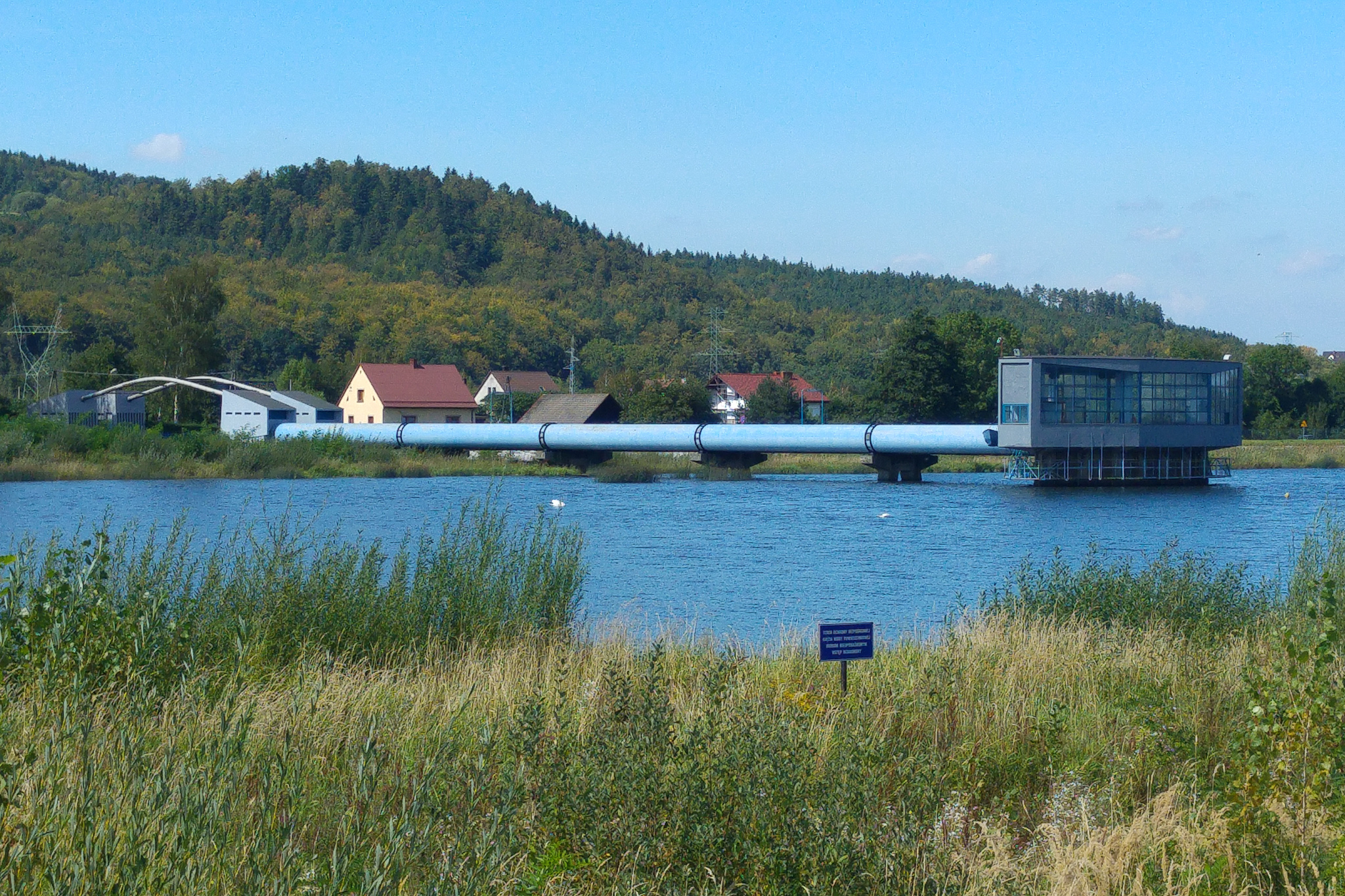 Porąbka, Bielsko district, Lake Czanieckie